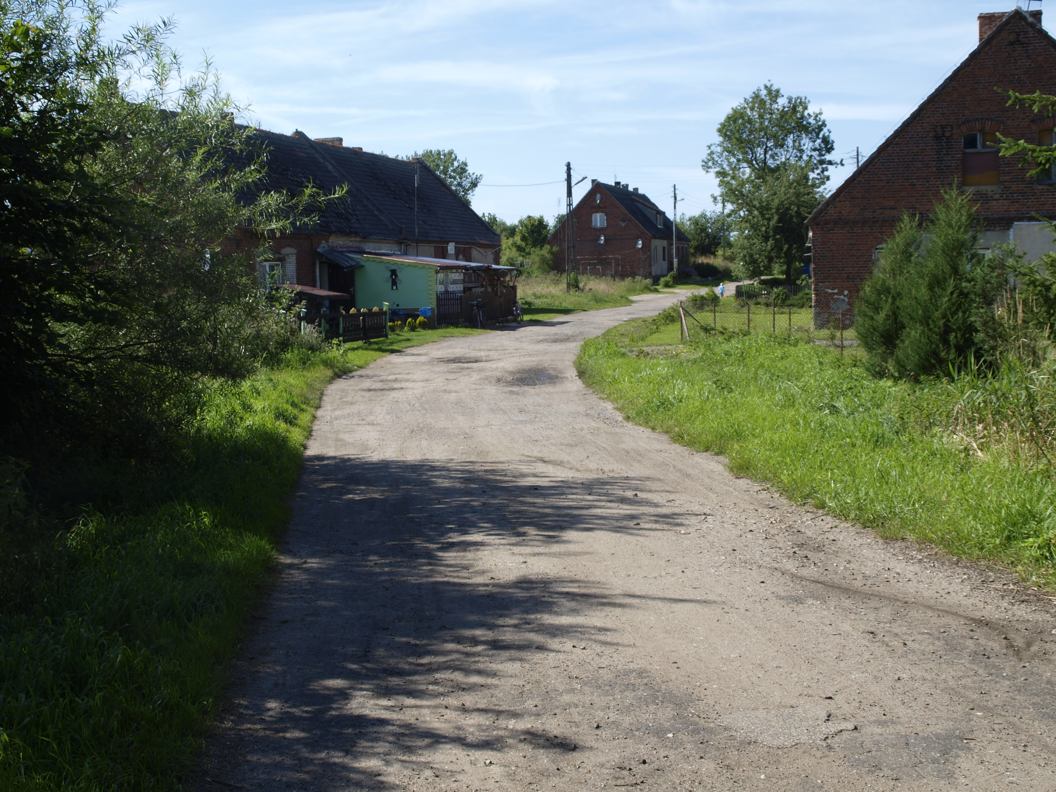 Rybice the road from Gostyń